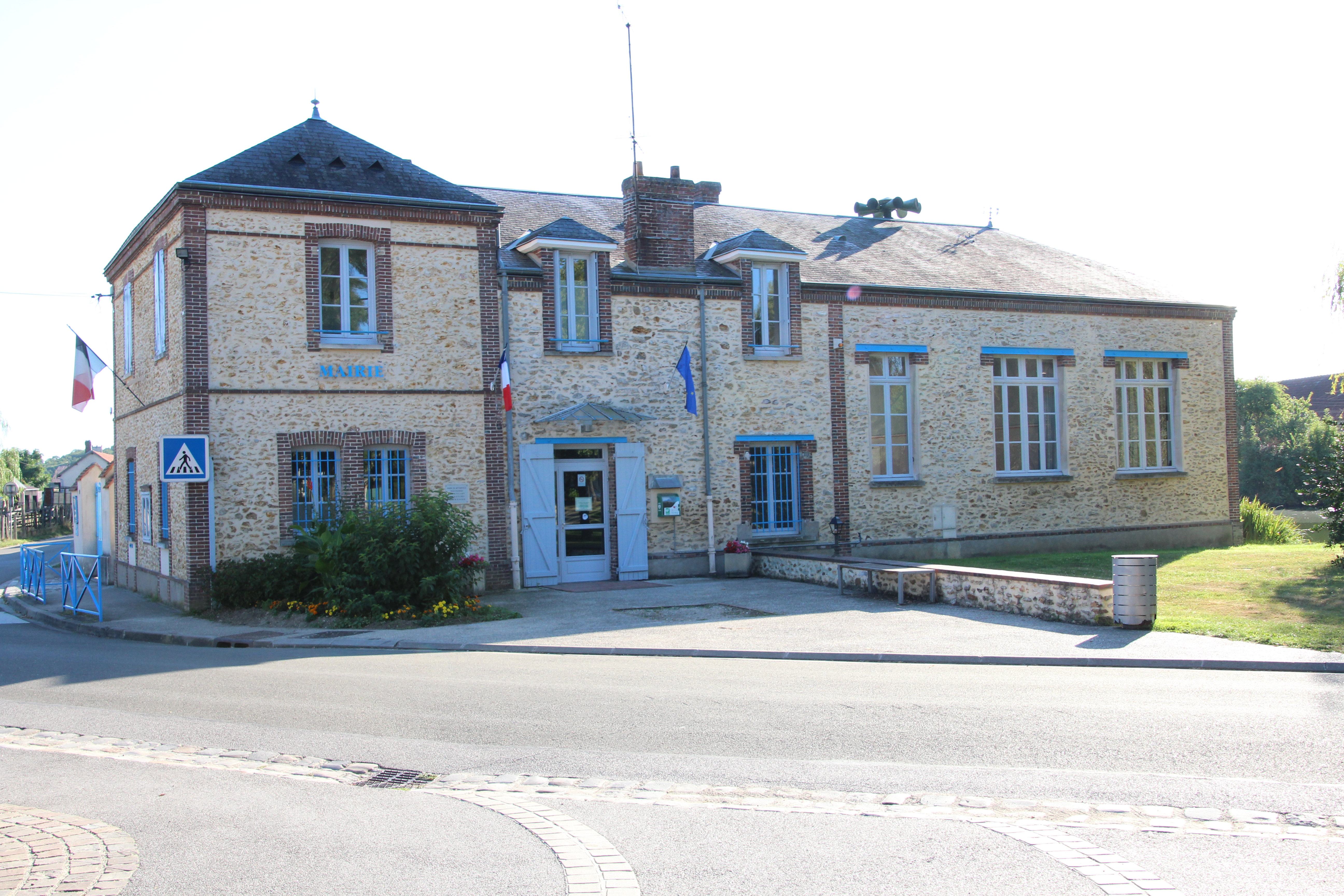 Townhall of Mittainville, France.